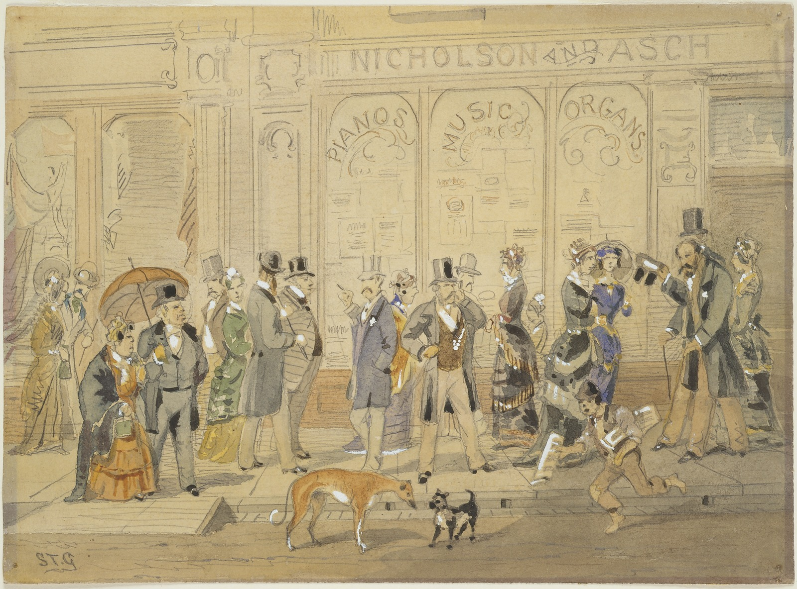 Doing the Block. Gt. Collins St., pencil, watercolour, white gouache on buff paper ; 24.6 x 34.0 cm.